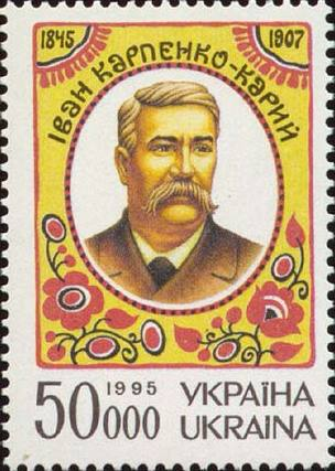 Stamp of Ukraine